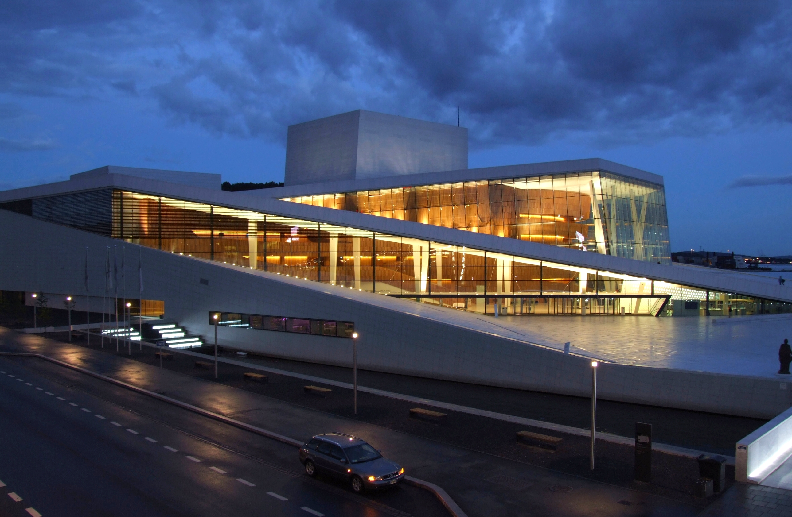 Bulding of Opera in Oslo by night